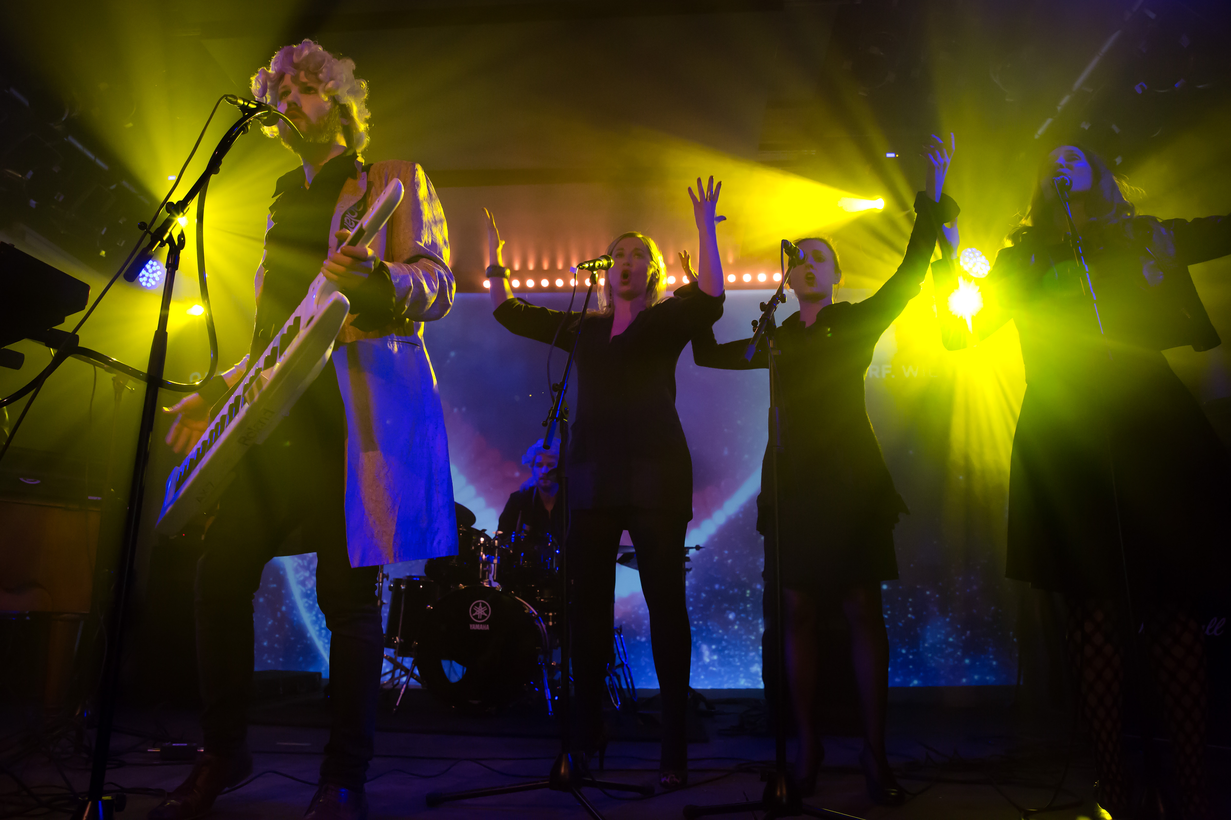 Johann Sebastian Bass at the concert of the Austrian candidates for participating at the Eurovision Song Contest 2015; Chaya Fuera, Vienna,Austria.